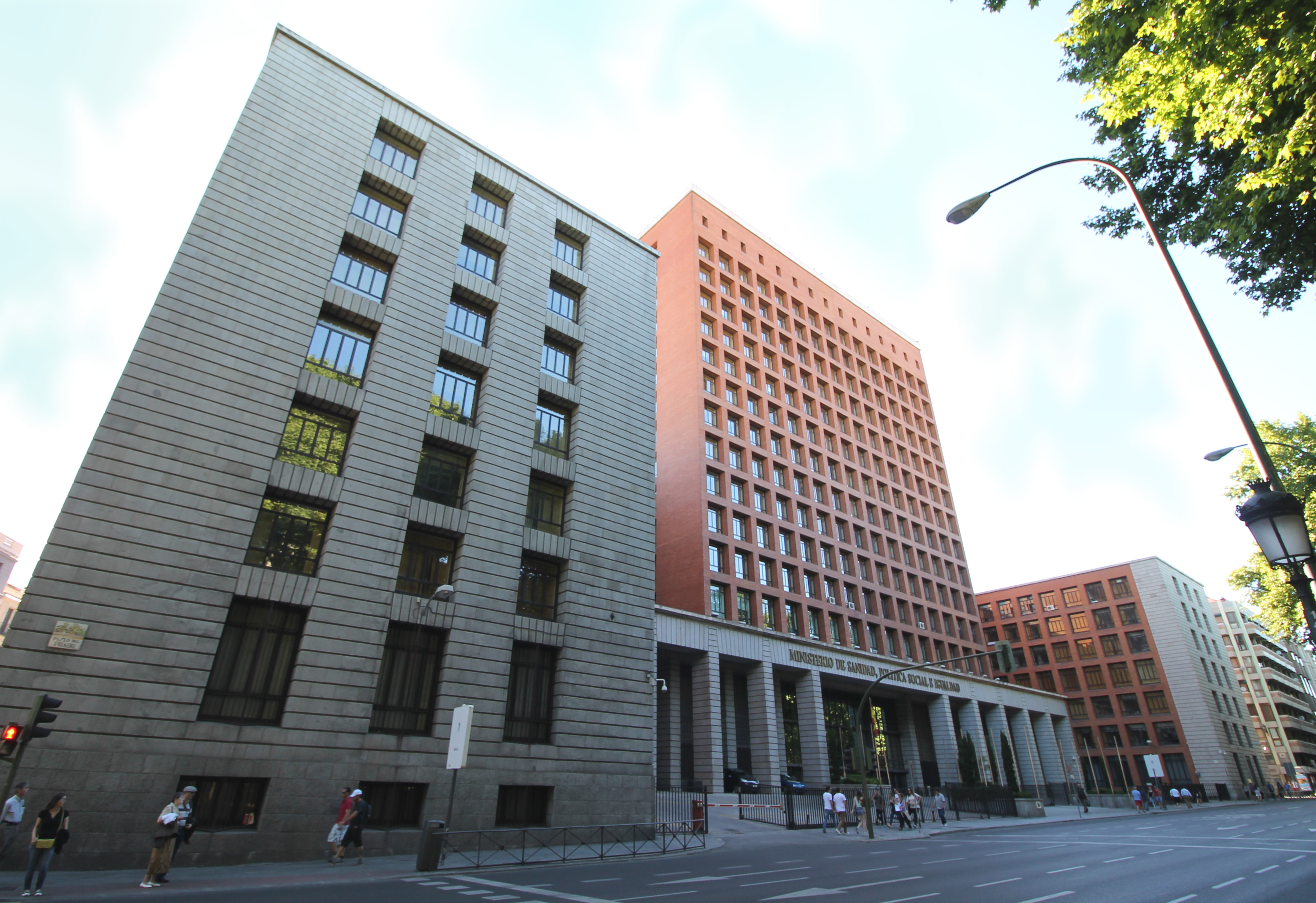 Façade of the Spanish Ministry of Health, at 18-20 Paseo del Prado (a boulevard) in Centro district in Madrid.